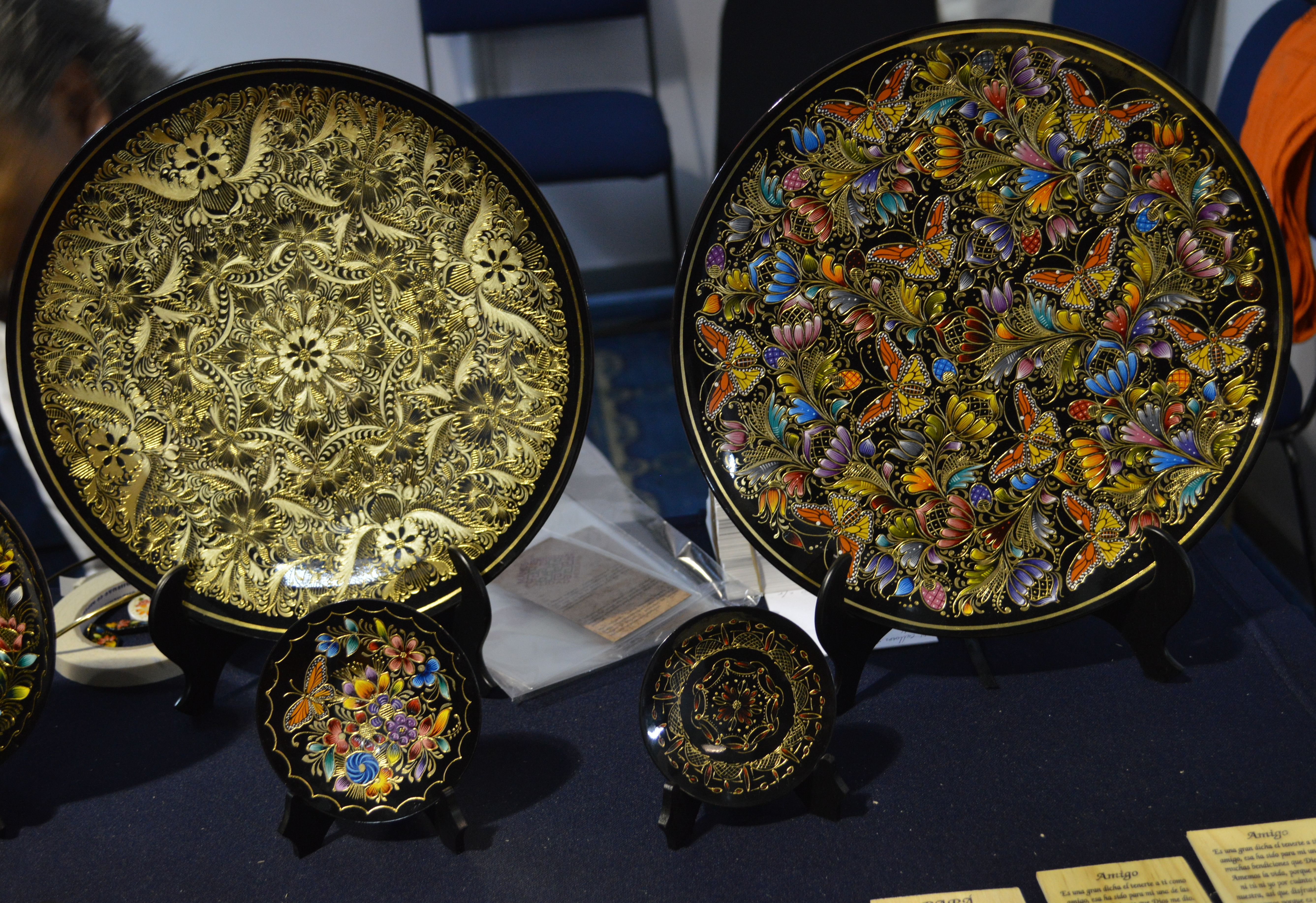 Gold inlaid laquer piece from the workshop of Mario Agustín Gaspar in Patzcuaro, Michoacan at the Expo de los Pueblos Indígenas in Mexico City